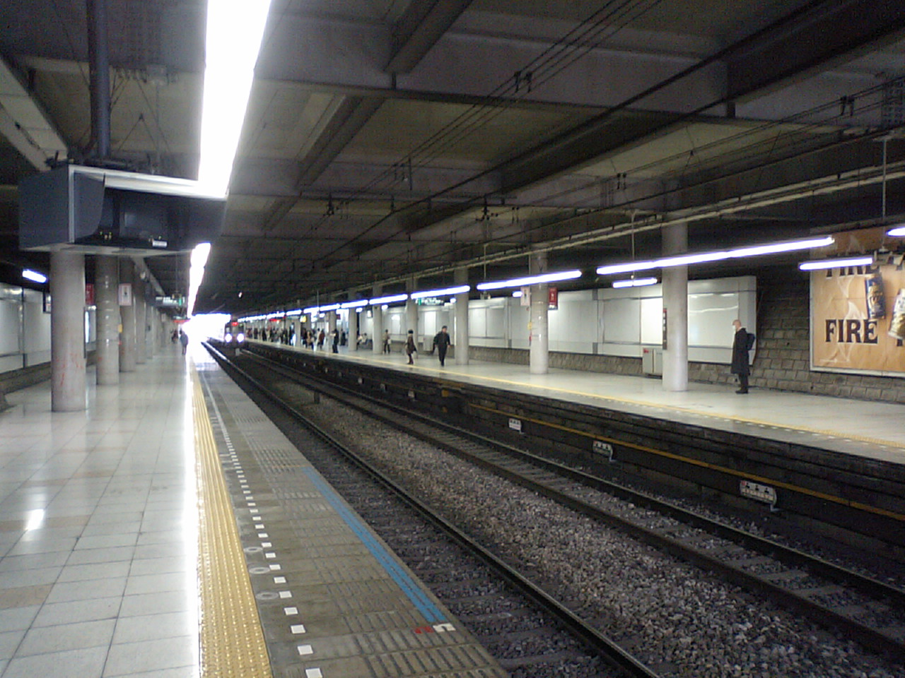 Platform of Aobadai Station.